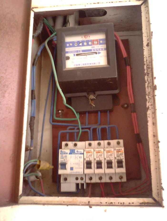 An electricity meter in China Mistakes: 1) Wire color codes are violated everywhere 2) Main disconnector is missing, so people should work with voltaged wires 3) Metal chasis is not grounded (protective class №0, which is not allowed today) 4) Poles are distributed through pieces of wires instead of certified for related amperage of busbars